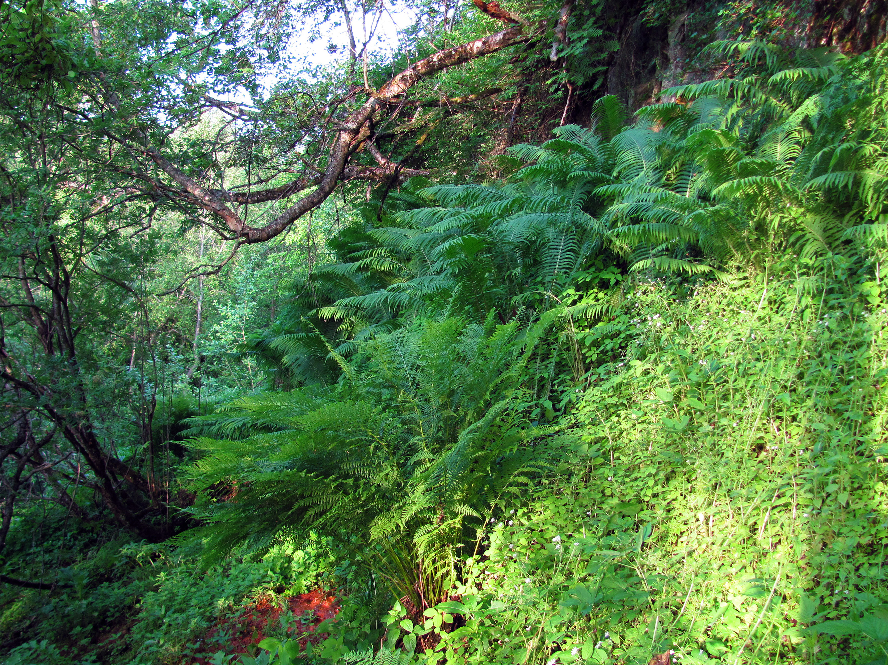 Forest under Purtse Hiiemäe cliff, Ida-Virumaa, Estonia.